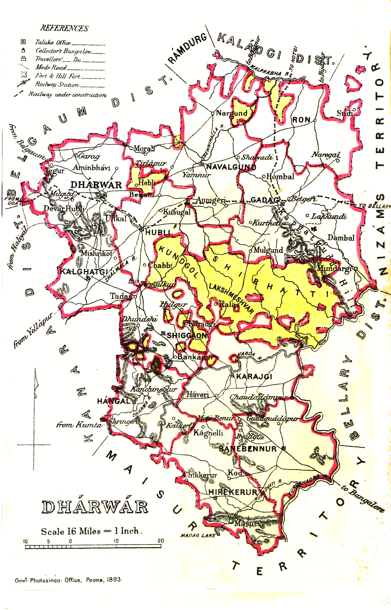 Map of Dharwad District